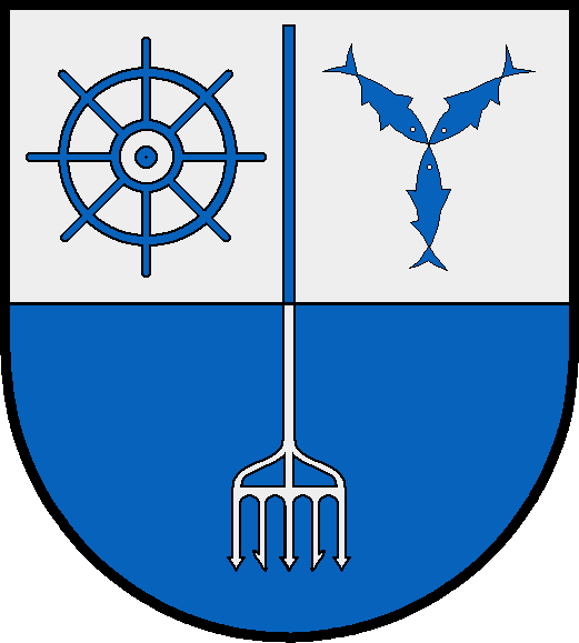 Coat of arms of the municipality Maasholm in Schleswig-Holstein, Germany.